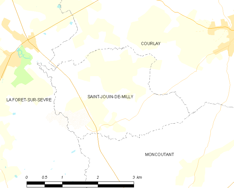 Map of French municipality Saint-Jouin-de-Milly